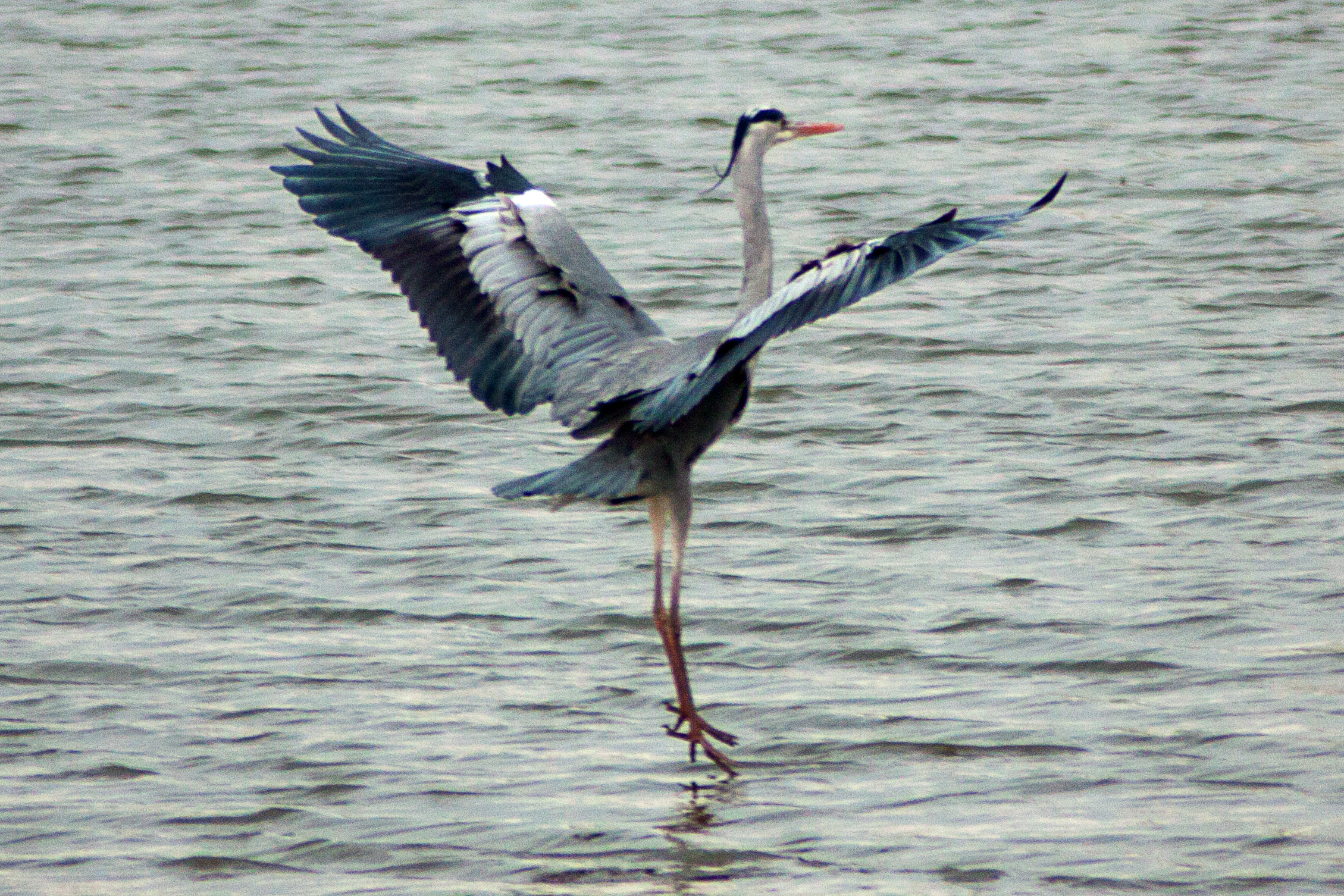 Oasi di Tivoli-Manzolino